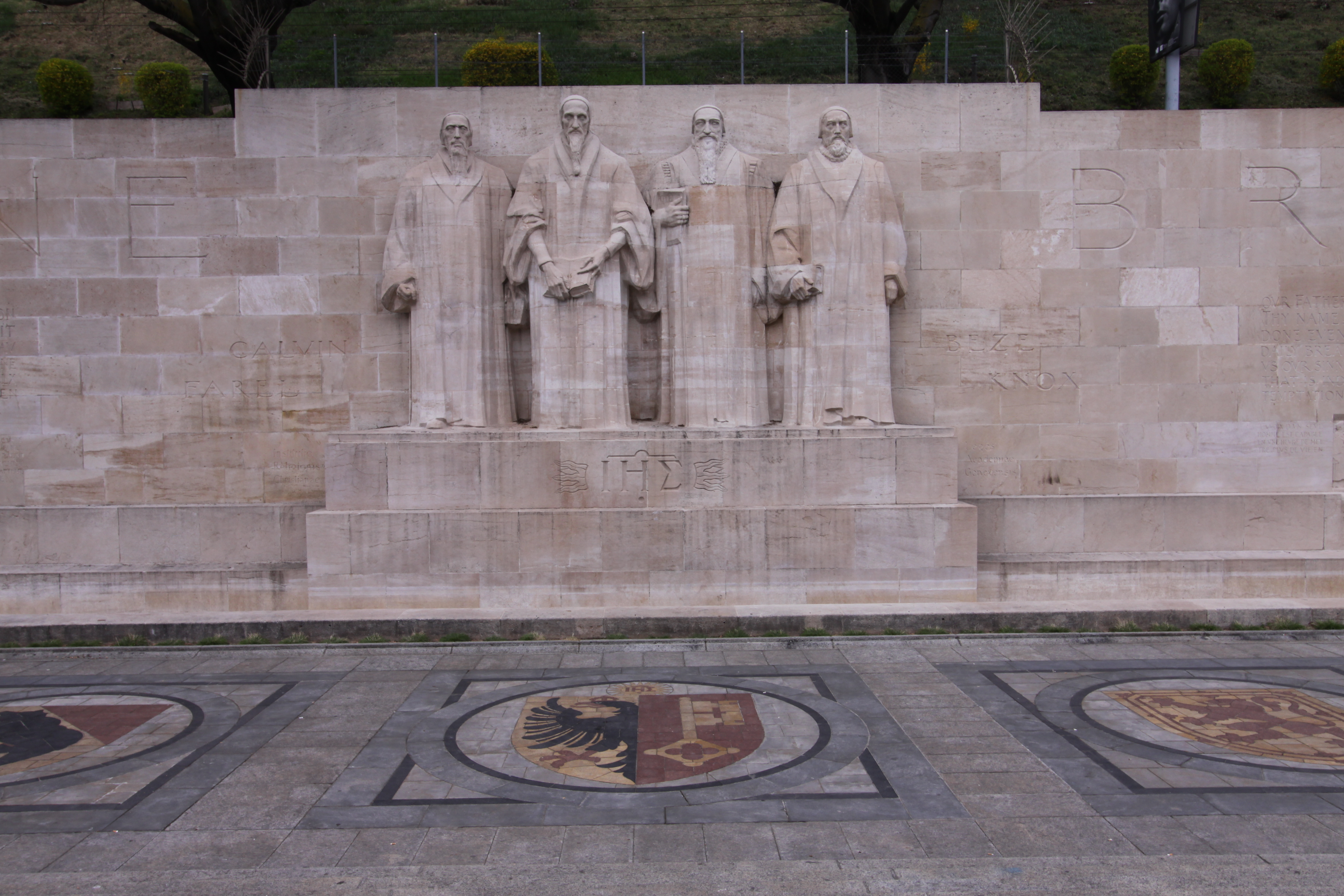 Parc des Bastions with Reformation Wall (from left; Farel, Calvin, Beza, and Knox), Promenade des Bastions, Geneva